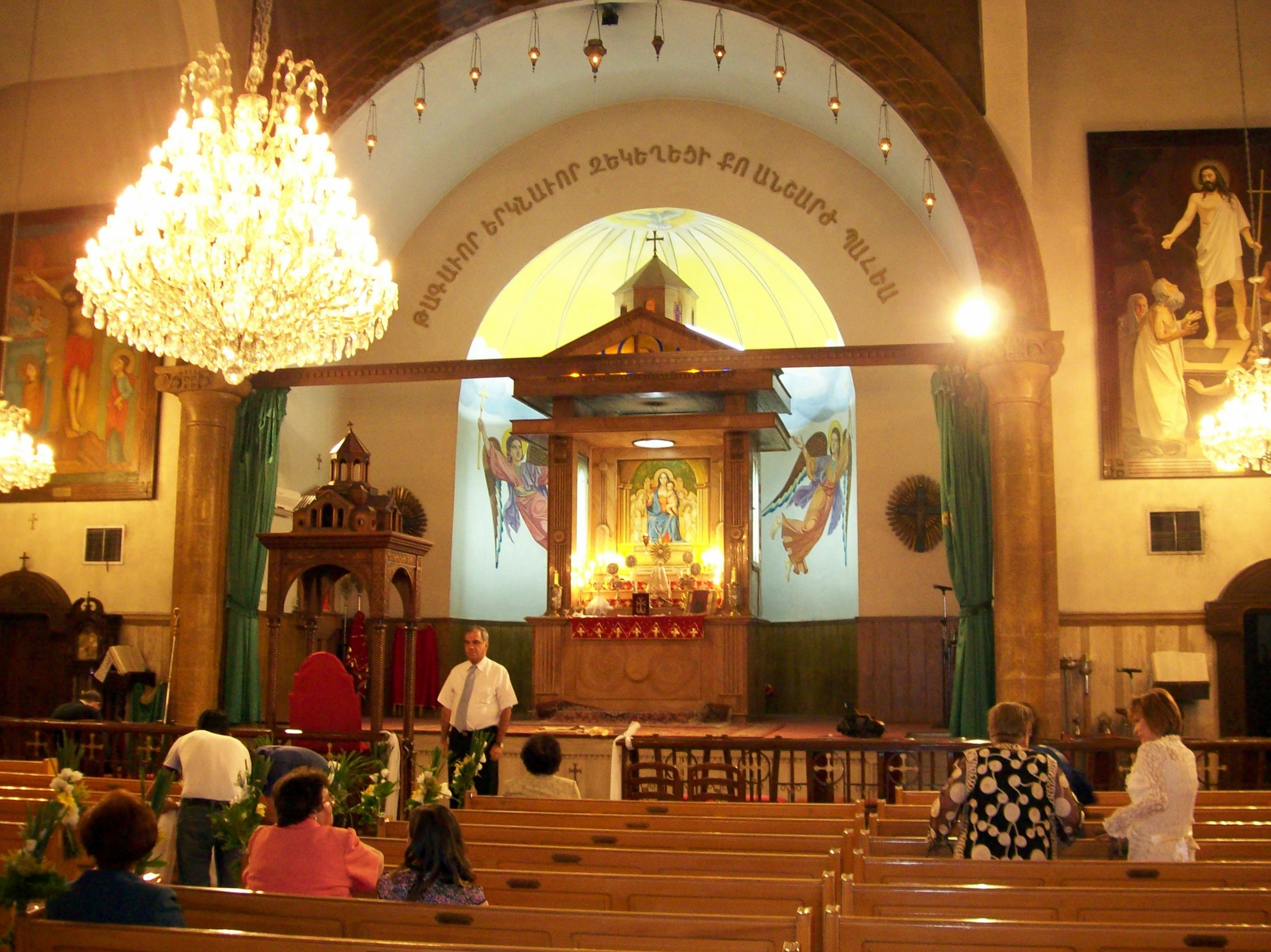 Holy Mother of God church Aleppo